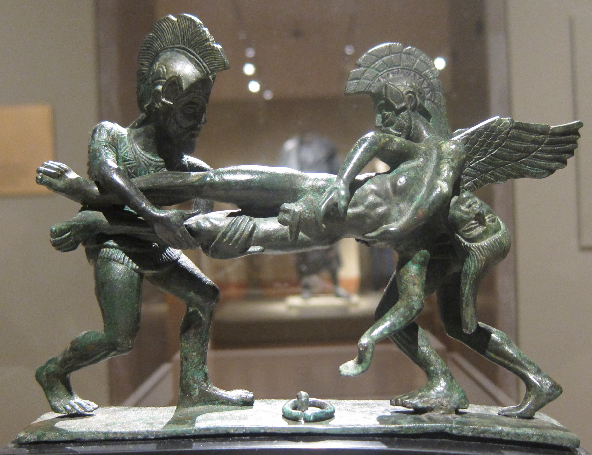 Cista handle: Sleep and Death Carrying off the Slain Sarpedon, 400-380 BCE, bronze, Etruscan, Italy. Cleveland Museum of Art